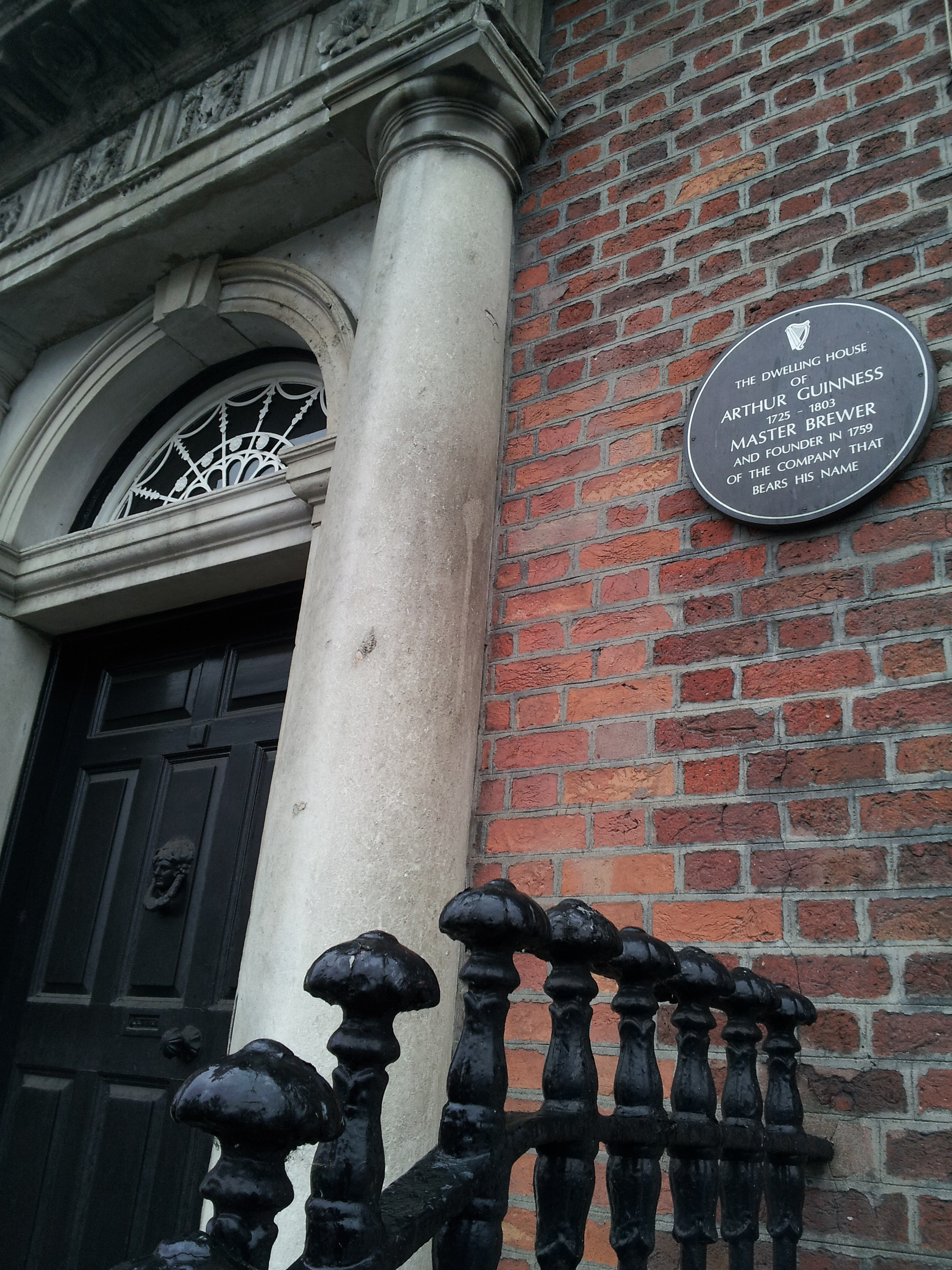 Arthur Guinness Home on Thomas Street